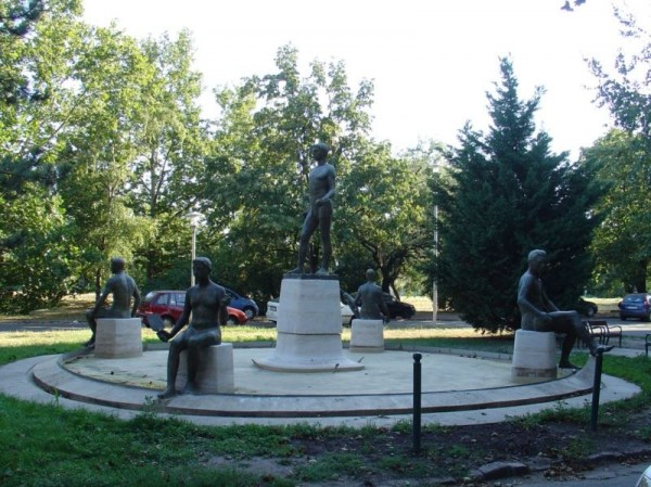 Peace Fountain sculpture in Budapest